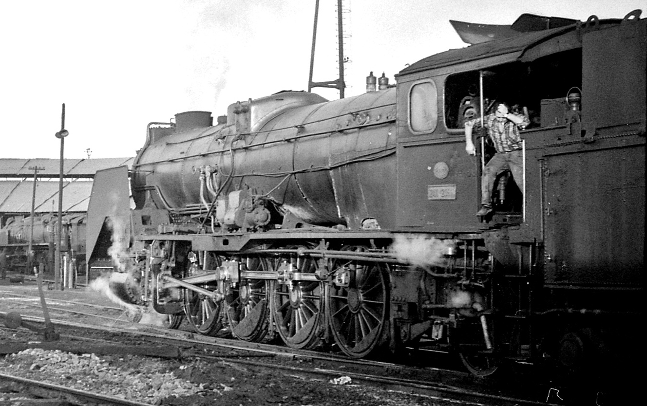 RENFE (ex-MZA) 4-8-2 at Salamanca shed, August 1970